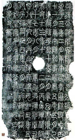 A commemorative stele honouring Yuan An, uncovered at Yanshi county, Henan province in 1929. It had been erected around 117 AD and gives important dates in Yuan An's life. Some characters are missing. The stele, 137.5cm tall and 71.5cm wide, is now held at Henan Provincial Museum. It matches a similar stele found in 1923, that of his son Yuan Chang. The two may have originally been erected at the same location. Text 司徒公汝南女阳袁安召公授易孟氏永平三年二月庚午以孝廉除郎中四十一月庚午除给事谒者五年正月乙迁东海阴平长十年二月辛巳迁东平城令十三年十二月丙辰拜楚郡守十七年八月庚申徵拜河南尹初八年六月丙申拜太仆元和三年五丙子拜司空四年六月己卯拜司徒孝和皇帝加元服诏公为宾永元四年月癸丑闰月庚午葬 Translation The lord Minister over the Masses Yuan An Zhaogong (Shaogong) of Nüyang (Ruyang), Ru'nan, inherited learning in the Yi from the Meng clan. On gengwu in the second month of the third year of Yongping (14 April 60), he was made Gentleman of the Palace on the basis of being "Filially Pious and Incorrupt". On gengwu in the eleventh month of the fourth year (5 December 61), he was made Master Libationer. In the first month of the fifth year (62), he was transferred to become Chief of Yinping, Donghai. On xinsi in the second month of the tenth year (20 March 67) he was transferred to become Prefect of Dongping. On bingchen in the twelfth month of the thirteenth year (2 February 70) he was appointed Administrator of Chu commandery. On gengshen in the eighth month of the seventeenth year (18 September 74), he was appointed Intendant of He'nan. Earlier, on bingshen in the sixth month of the eighth year, (12 August 65), he was appointed Grand Coachman. On bingzi in the fifth month of the third year of Yuanhe (3 June 86) he was appointed Minister of Works. On jimao in the sixth month of the fourth year (31 July 87), he was appointed Minister over the Masses. The Xiaohe Emperor promoted his court dress and summoned him to be an advisor. He passed away on guichou in the fourth year of Yongyuan (9 April 93), and was entombed on gengwu in the intercalary month (26 April).